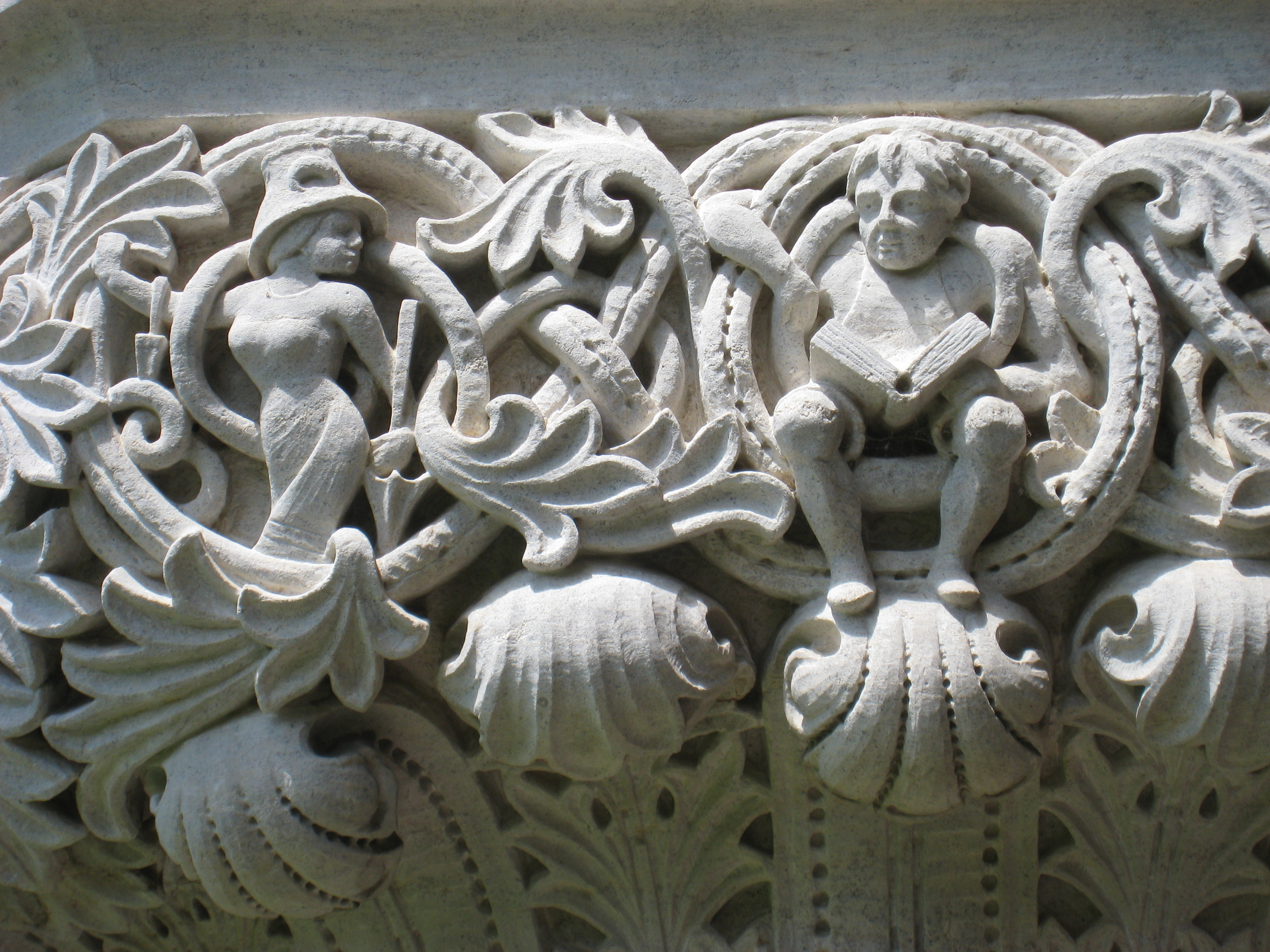 Rice University, Houston, Texas, USA - architectural detail.